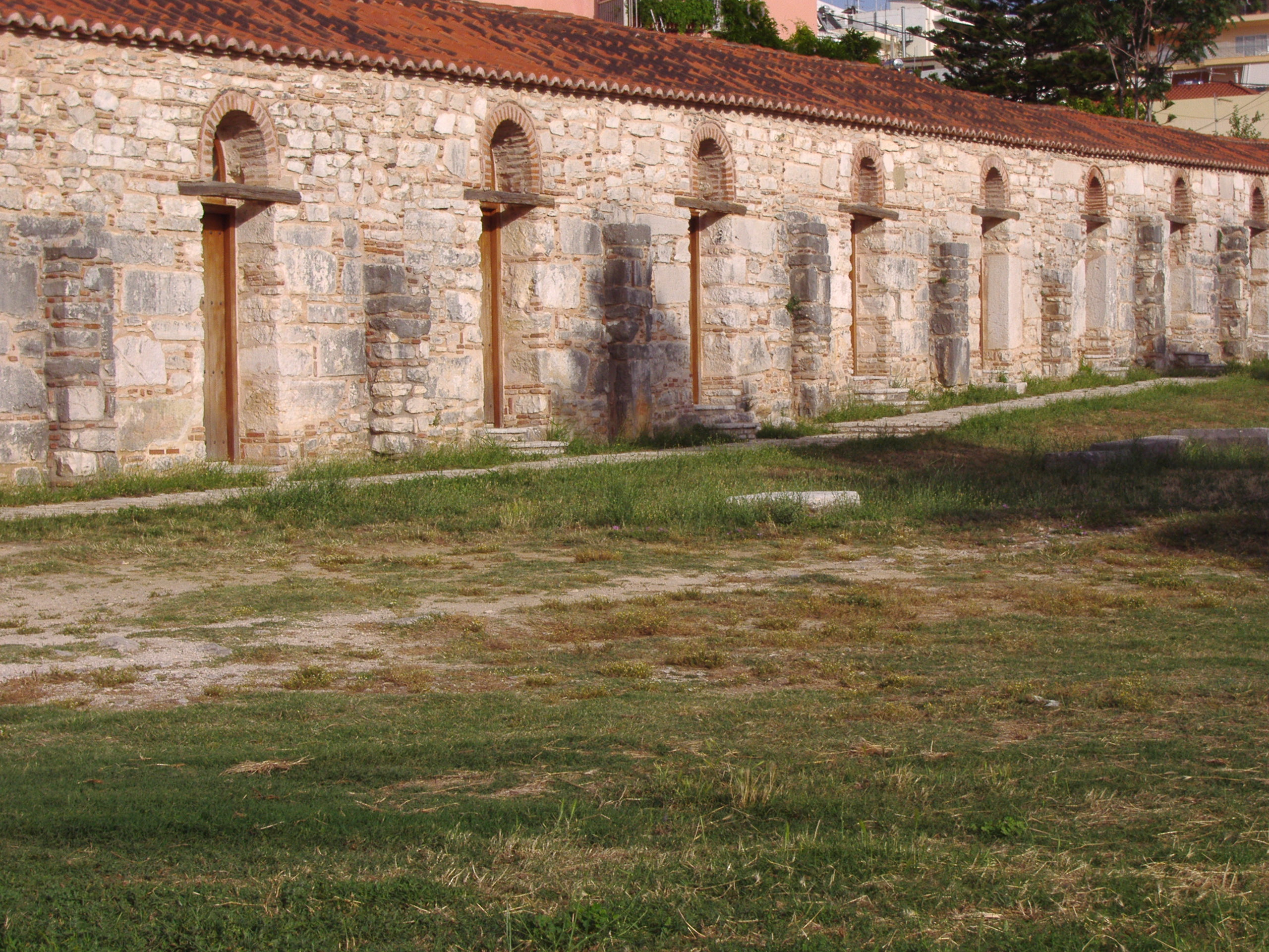 CLOISTERS